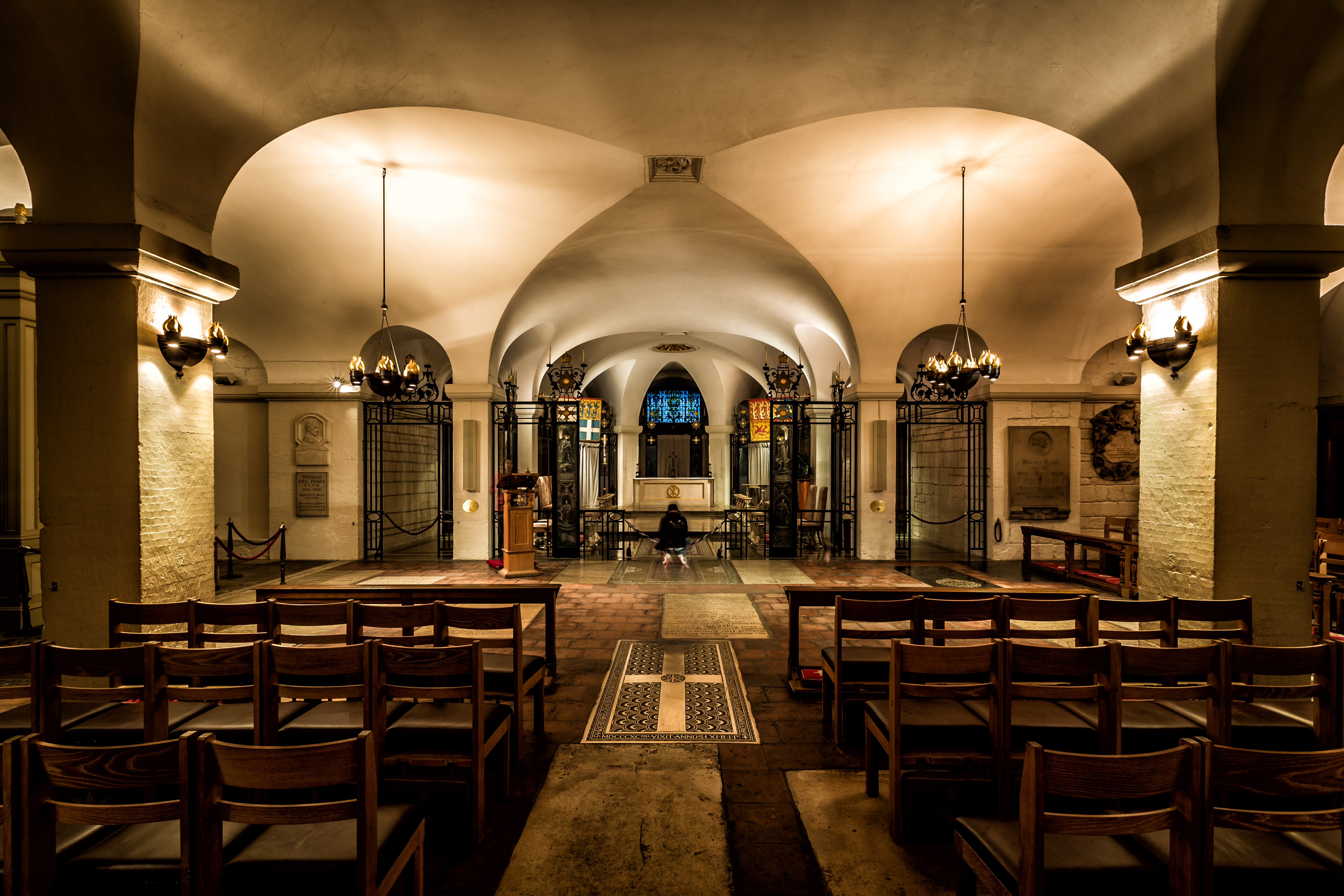 St. Paul's Cathedral, London.